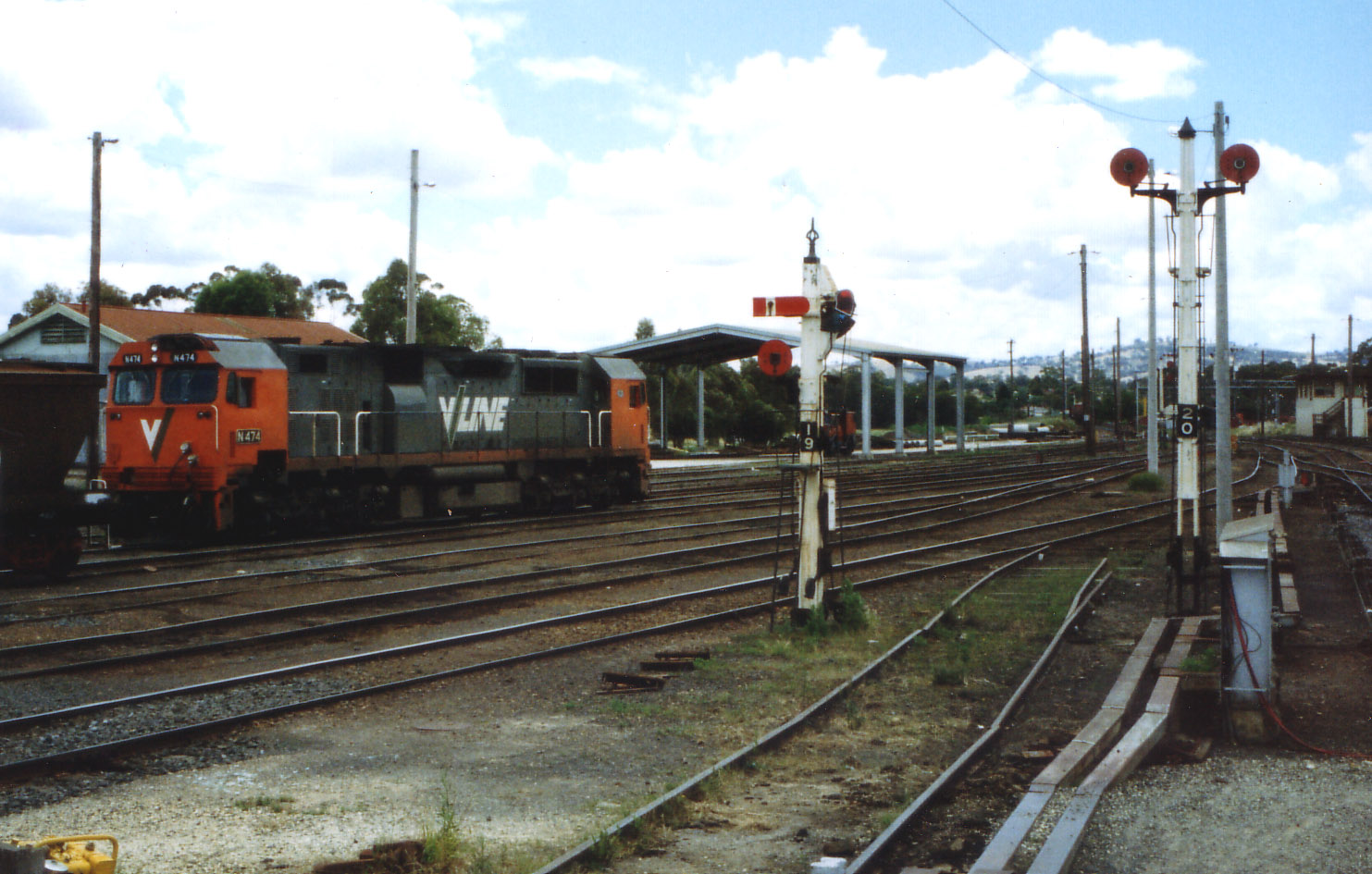 View looking north-west of yard and freight depot at Seymour railway station with V/Line N class locomotive N 474